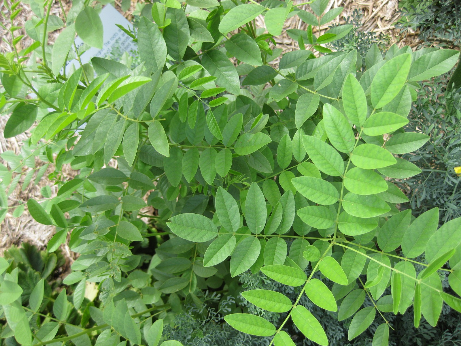 Photographed at the Royal Botanic Gardens Sydney (Australia) in January